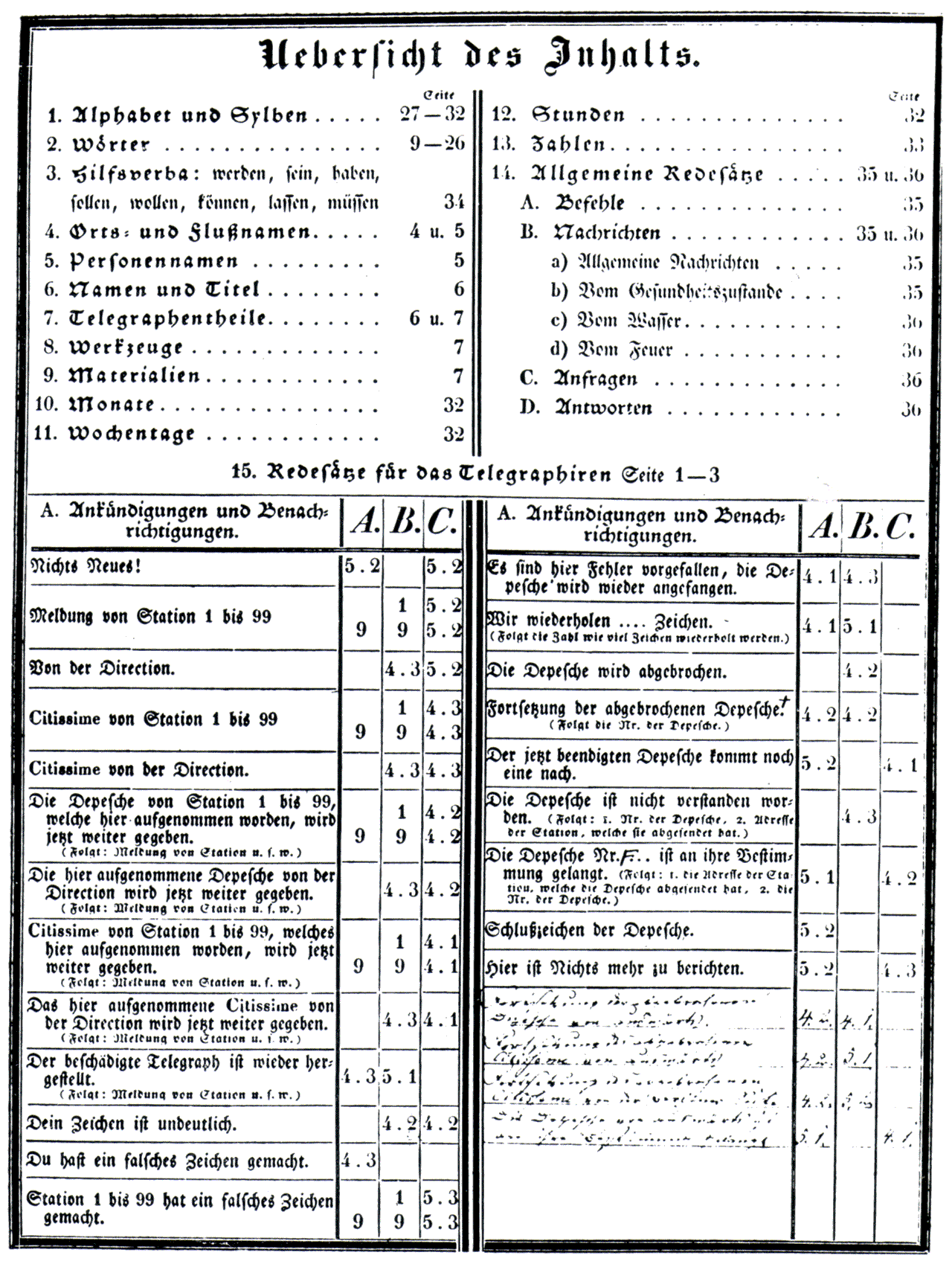 1st page of prussian telegraph's codebook for optical-telegraphy